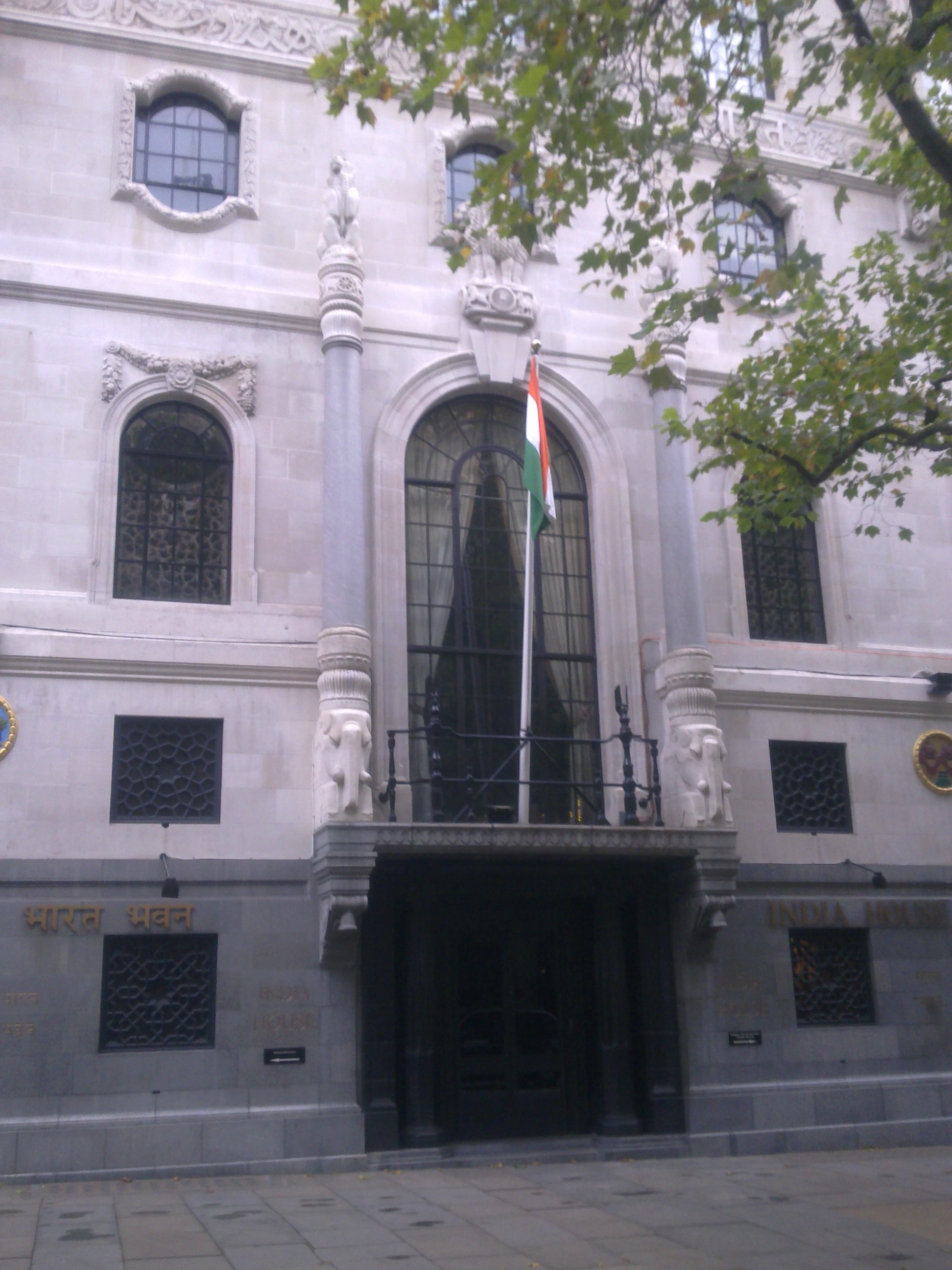 High Commission of India in London 1